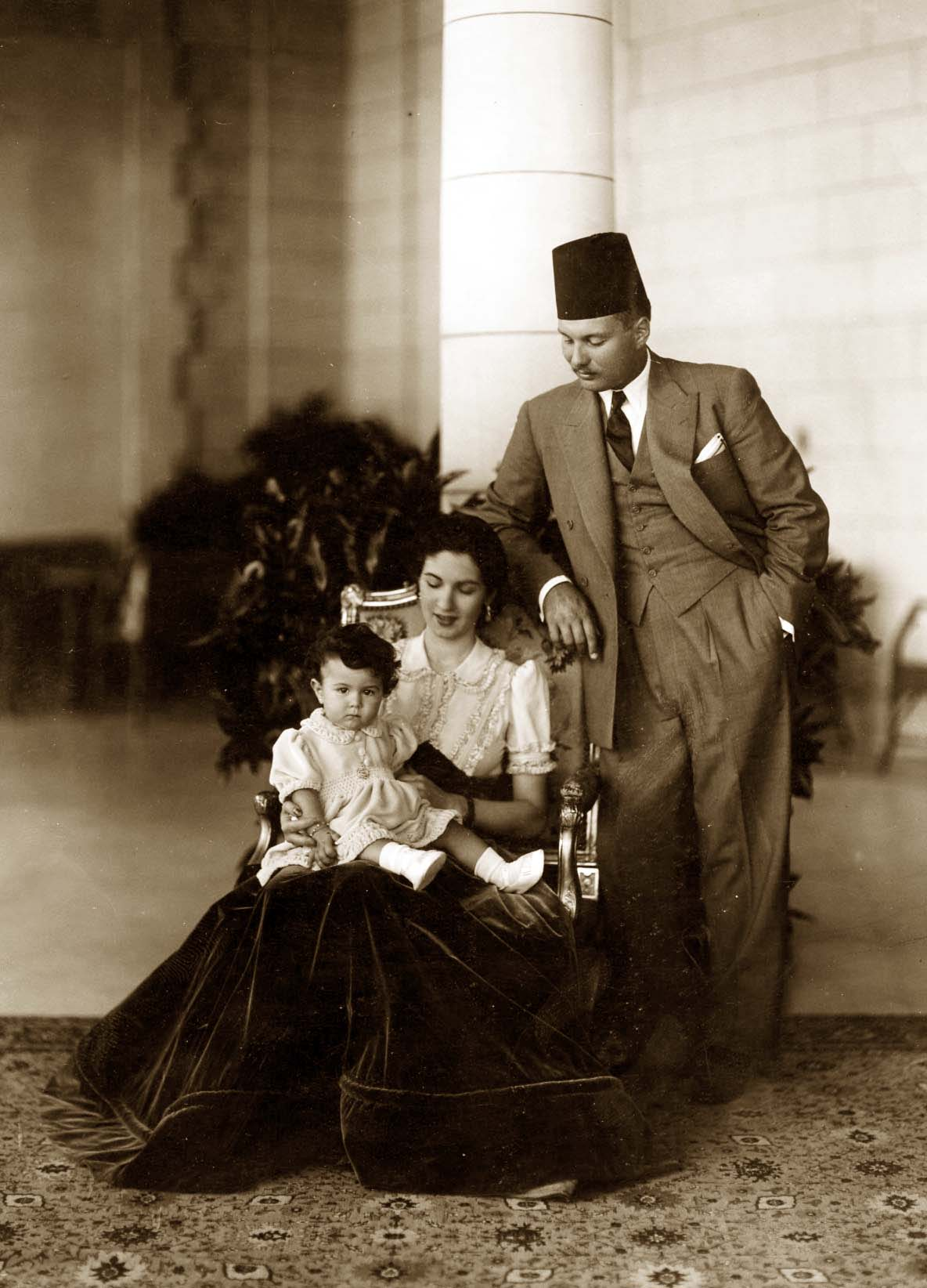 King Farouk I of Egypt with his wife Queen Farida and their daughter Princess Ferial.